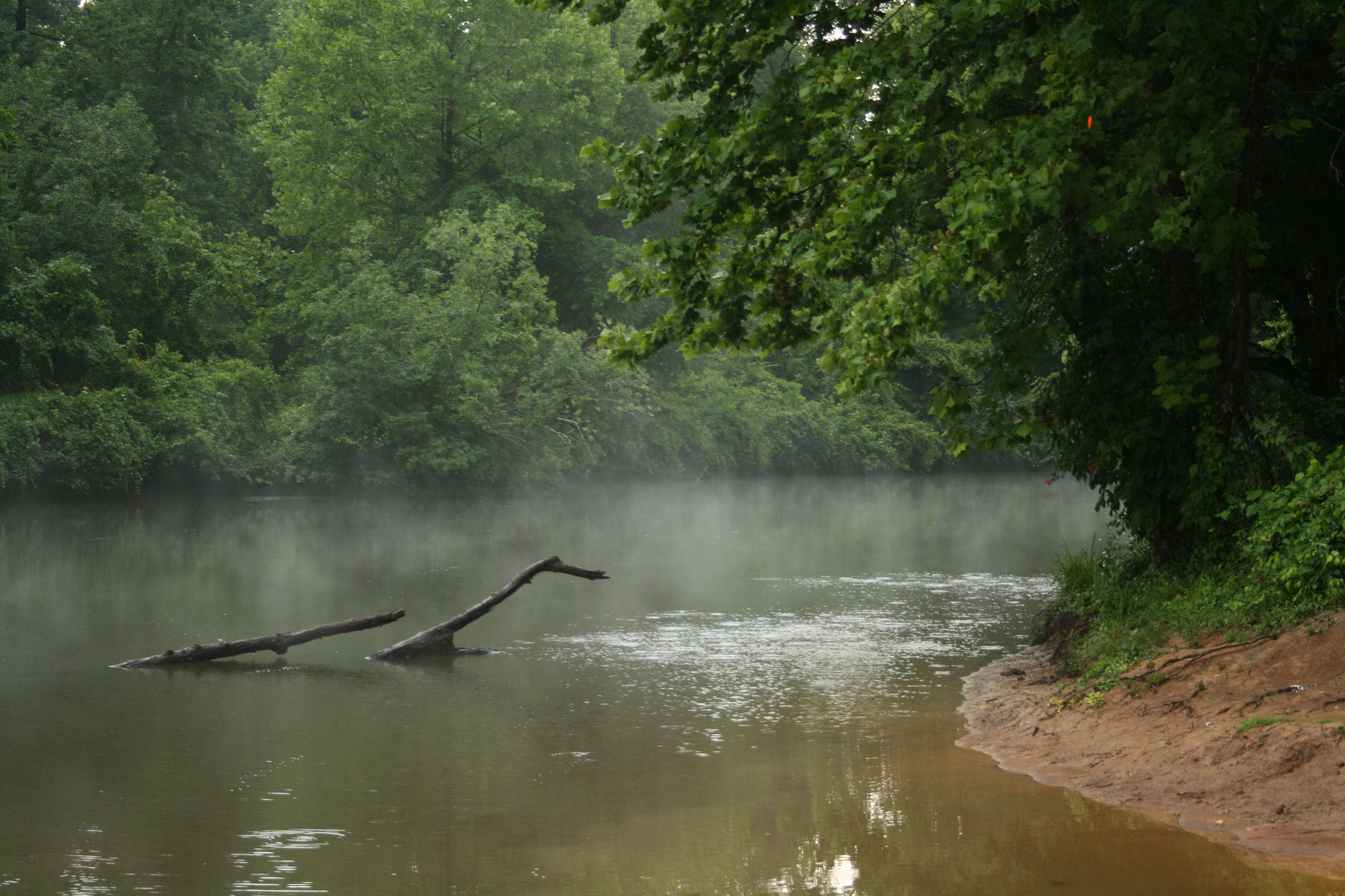 Eno River boating access at 40 Rodolphe Rd in Durham, North Carolina after a rain. View from the pier.